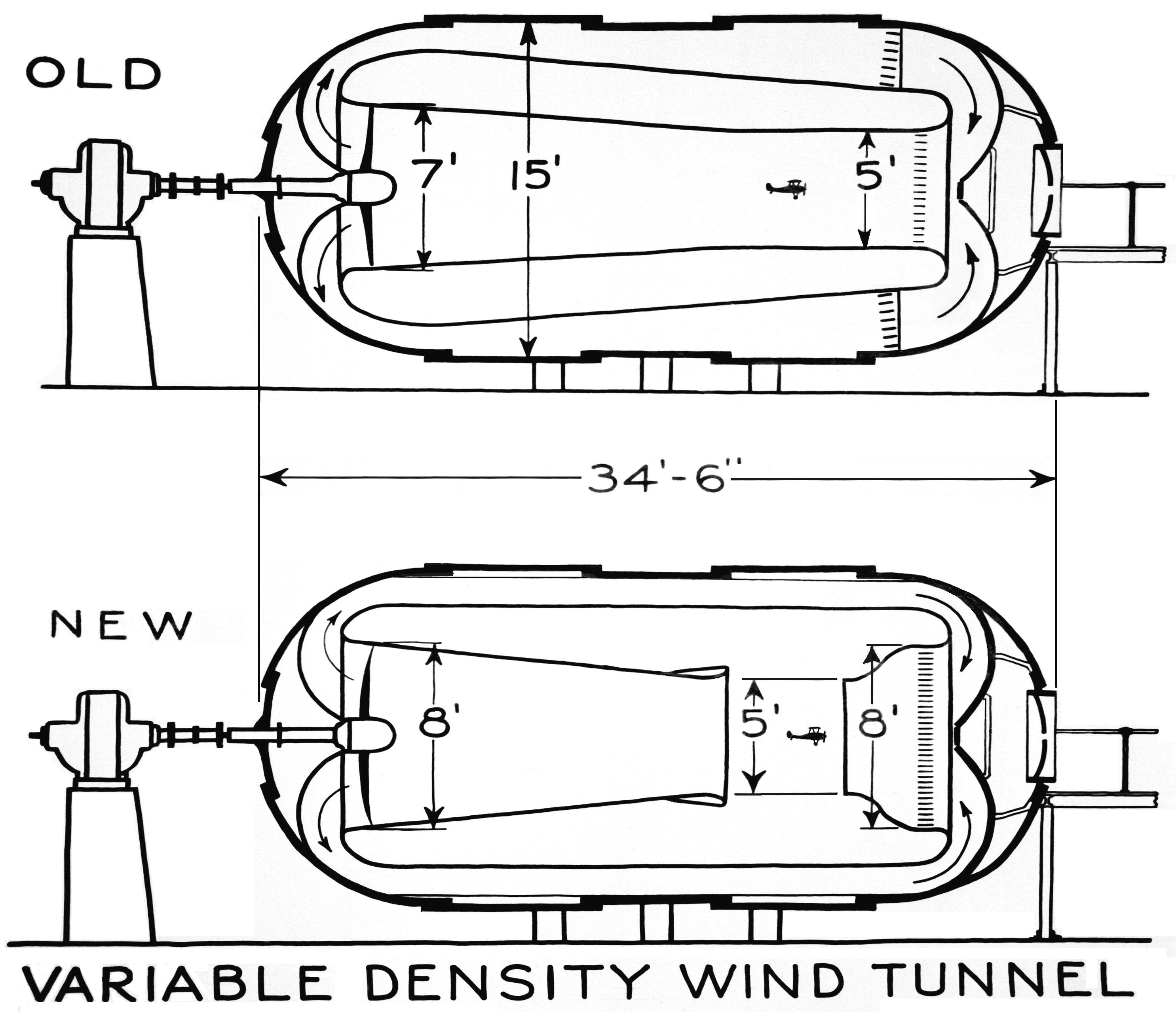 (L-2929): These section drawings show the VDT with closed (top) and open (bottom) test sections. It was built with a closed test section. The open test section installed after the 1927 fire proved to be unsuccessful, and the original design was replicated in 1930.